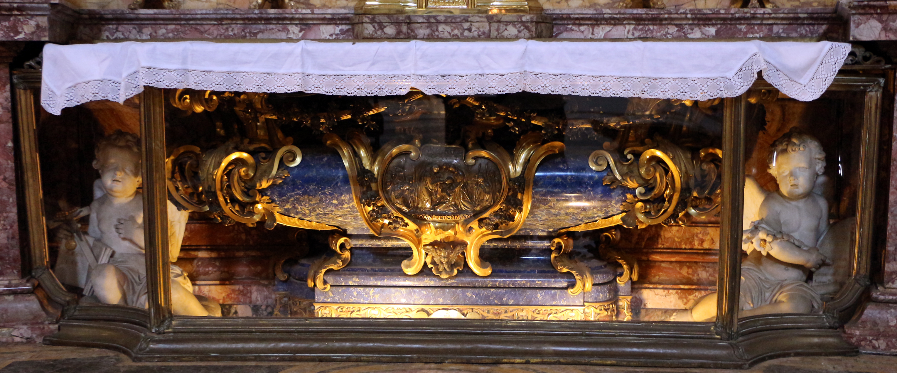 Interior of Sant'Ignazio (Rome)